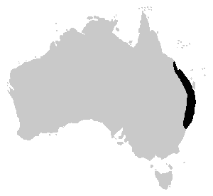 Distribution of the Great Barred Frog (Mixophyes fasciolatus) User:Froggydarb/GFDL-self